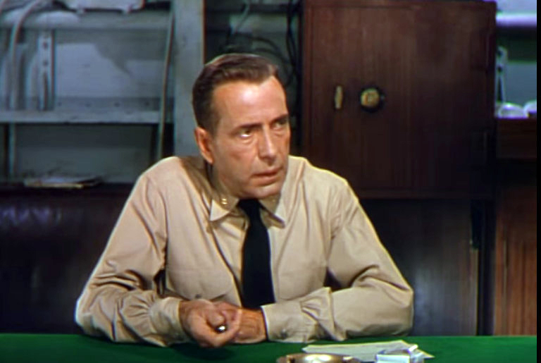 Screenshot from trailer for The Caine Muttiny (1954); no copyright